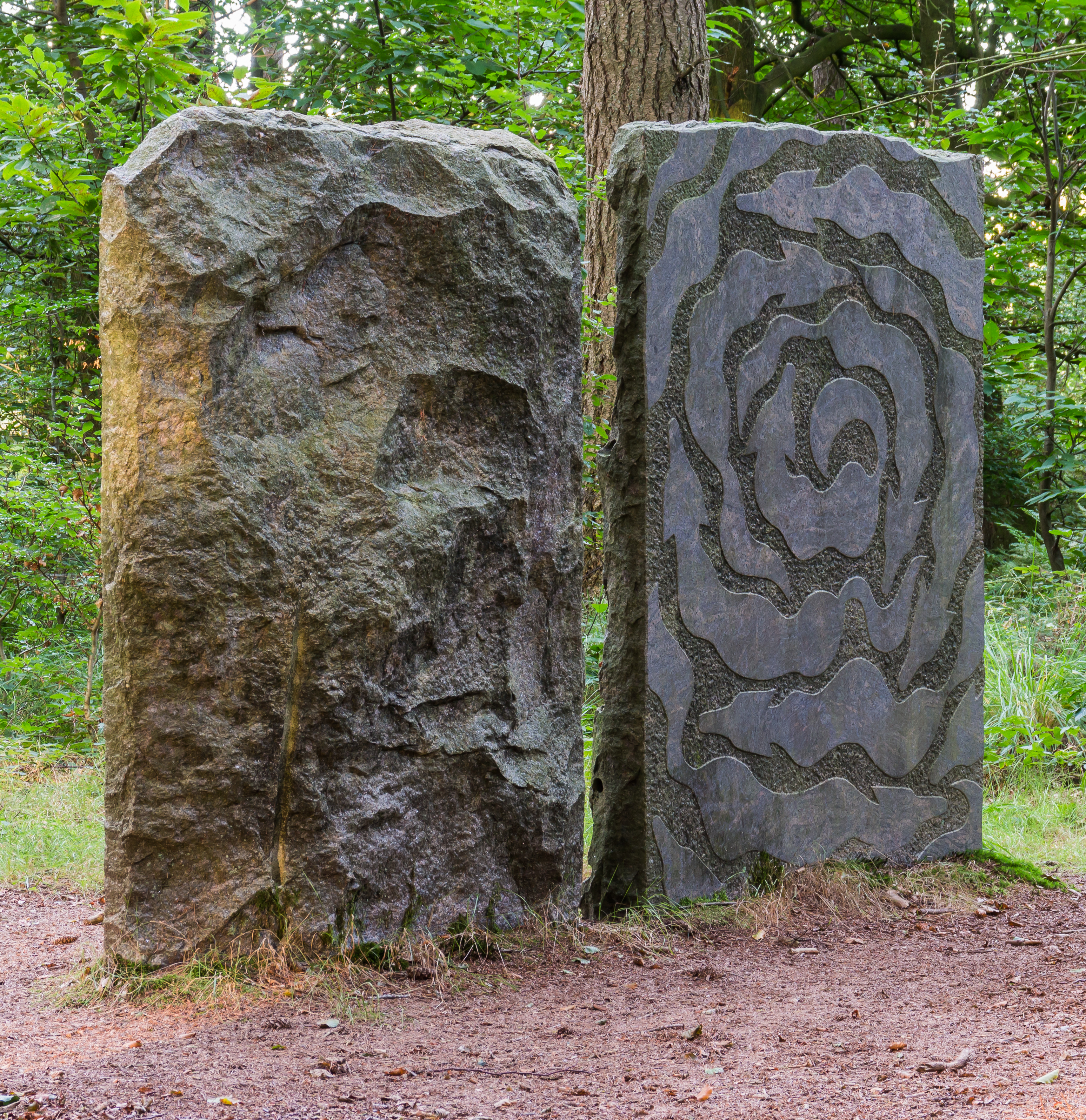 Ode to the wolf. Sculpture by Anne Woudwijk. Location, Het Katlijker Schar.